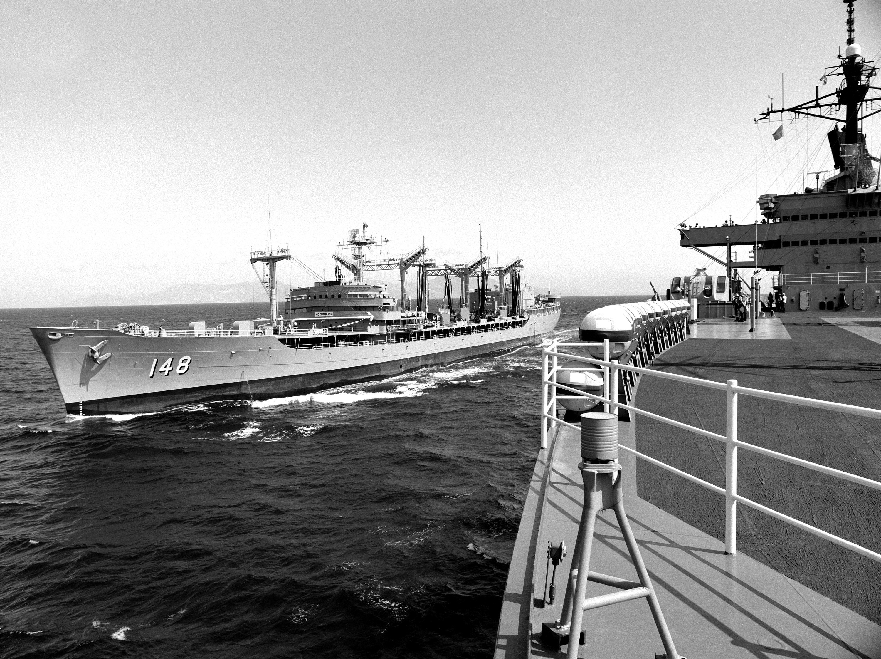 The U.S. Military Sealift Command fleet oiler USNS Ponchatoula (T-AO-148) comes alongside the amphibious command ship USS Blue Ridge (LCC-19) to conduct an underway replenishment on 3 December 1991.